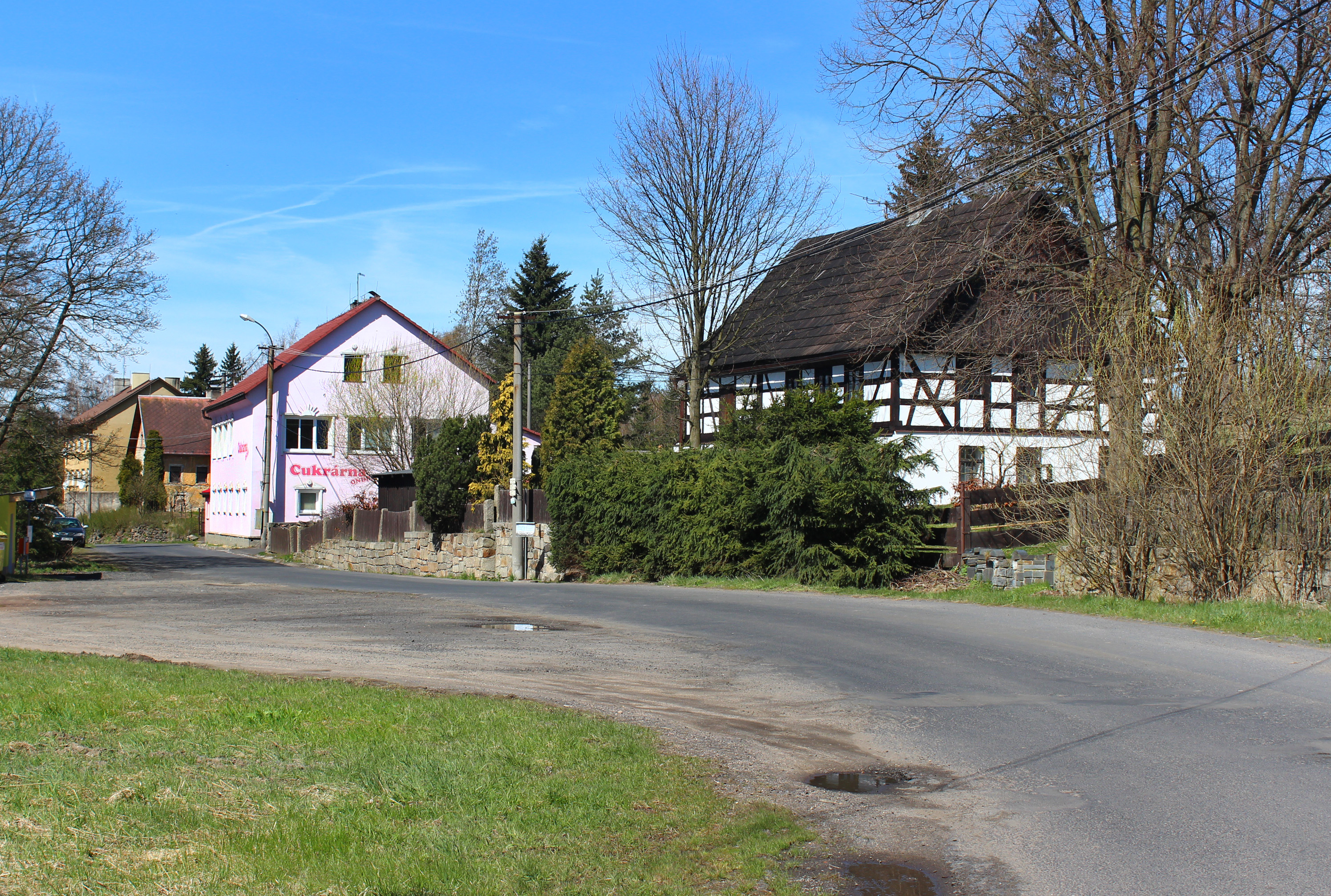 Dlouhá Lomnice, part of Bochov, Czech Republic